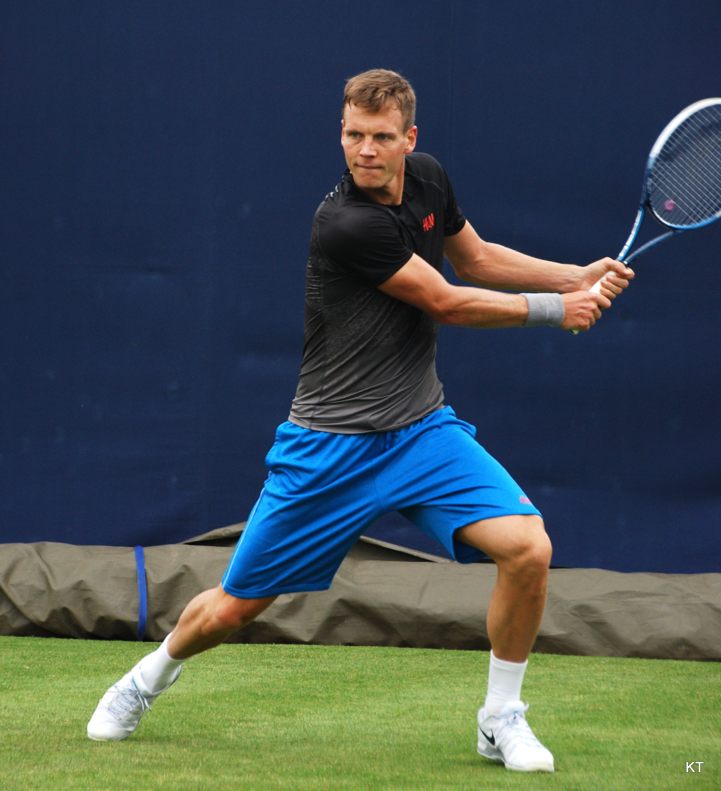 Berdych at the 2013 Queens exhibition